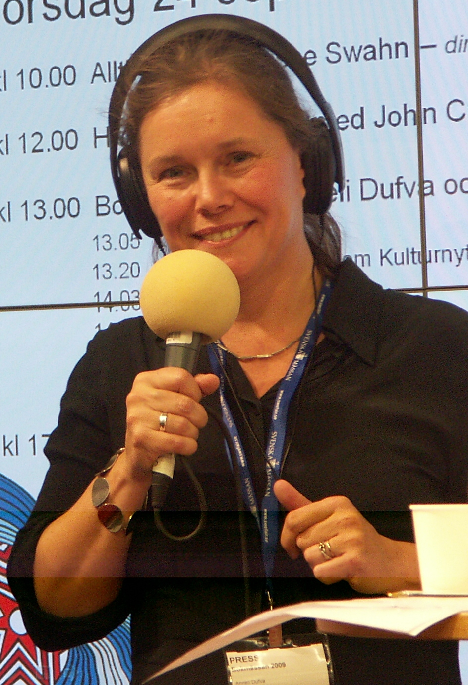 Swedish arts journalist Anneli Dufva of the national public service radio.